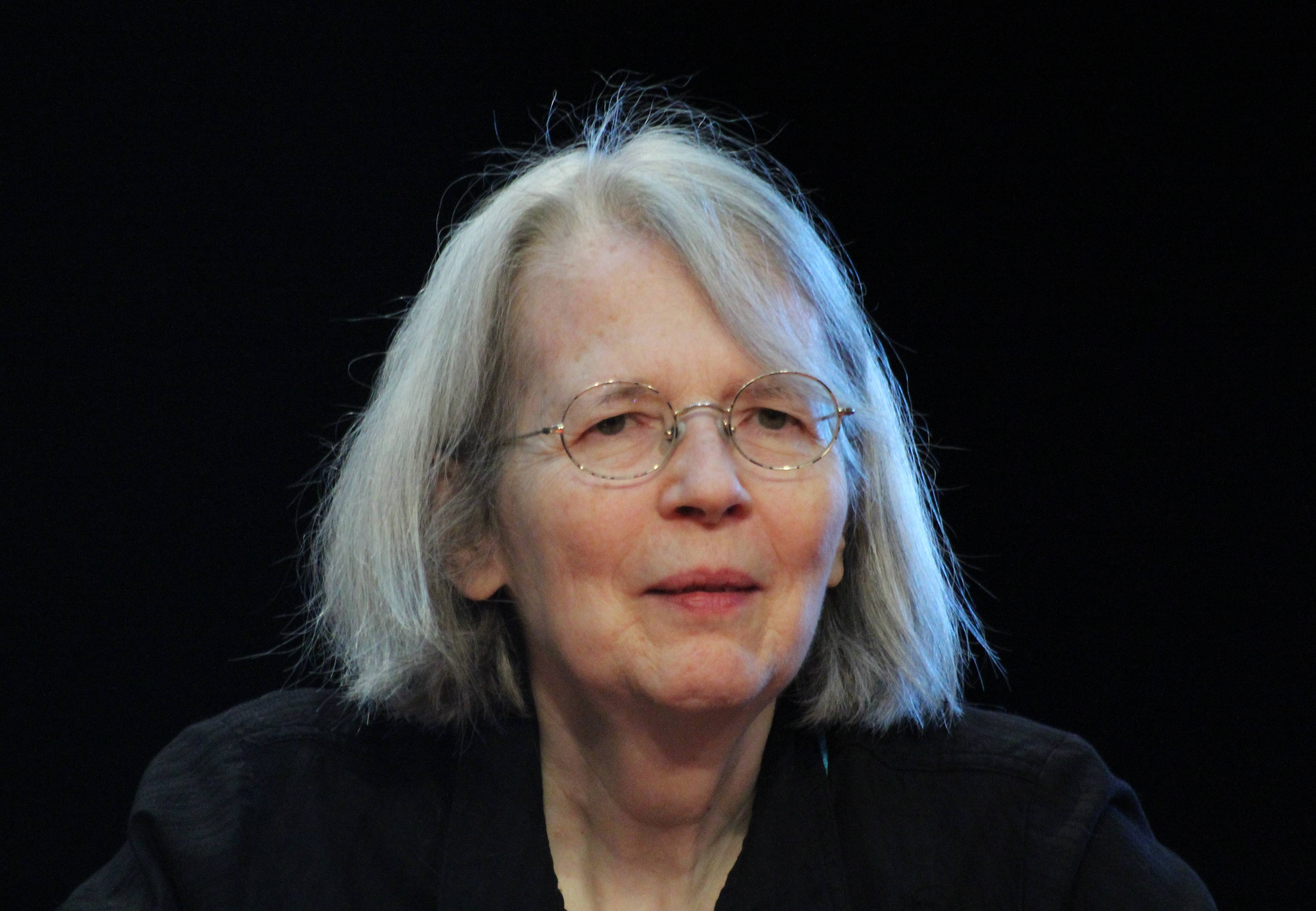 Esther Rochon at the Utopiales 2014 in Nantes, France.